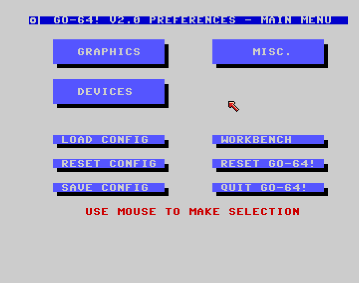 The main preferences screen for the Go-64! version 2.0 software, accessed by pressing both the TAB key and the F1 key at the same time.